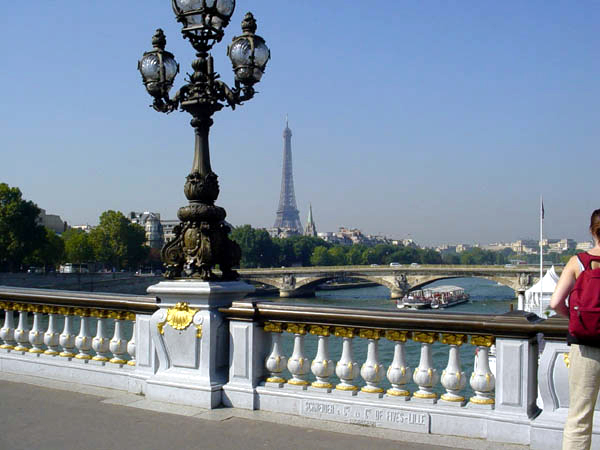 Paris, Seine (view from bridge Alexander III)